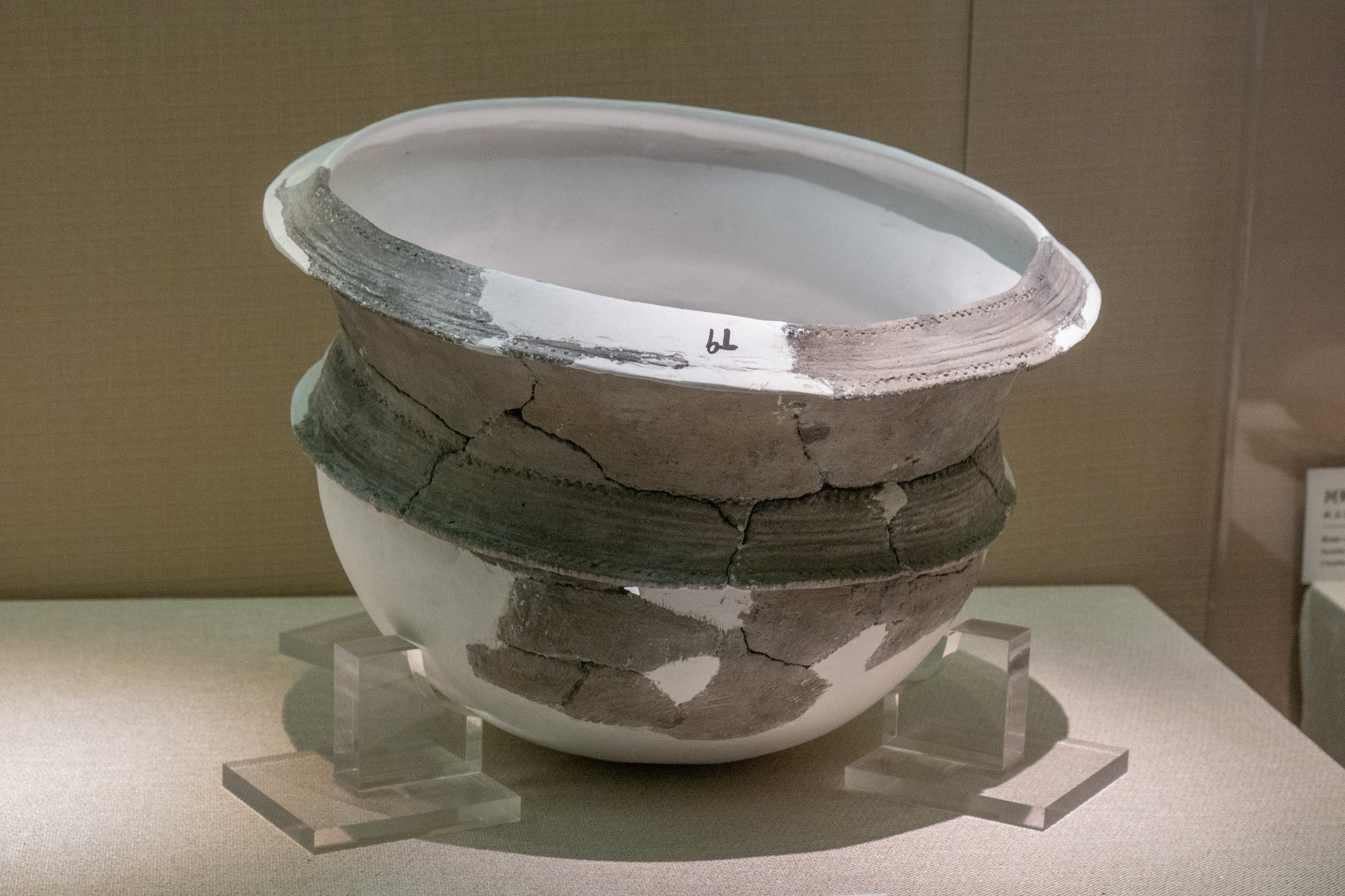 河姆渡文化陶釜 新石器时代 童家岙遗址出土